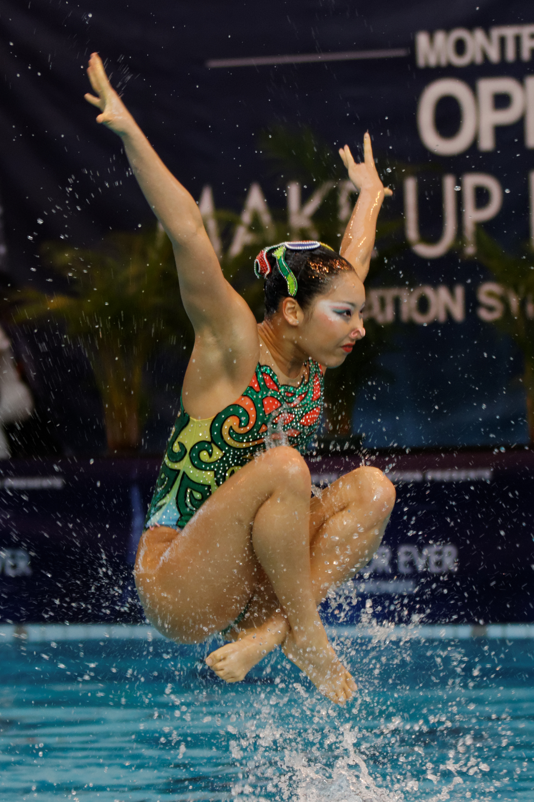 A member of the Japanese team is thrown up in the air during the team's free routine at the French Open in Montreuil, March 16, 2013.